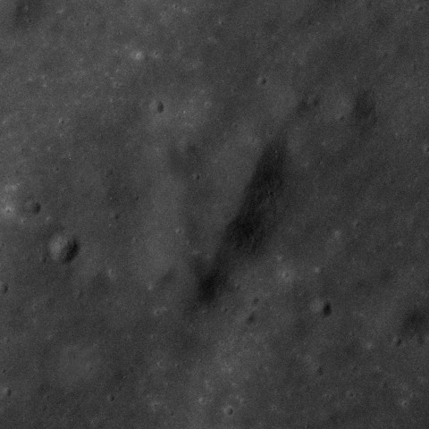 Victory crater, Taurus–Littrow valley, on the moon. Sun elevation 46 deg., spacecraft altitude 112 km.